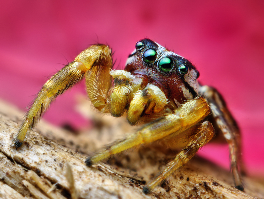 Adult Male Jumping spider (Pelegrina pervaga) I search the same few areas for bugs almost weekly hoping to find something new. I have almost grown accustomed to not finding anything in this one conifer-rich area but Phidippus audax females in some wood platforms, but Friday afternoon, I noticed a little form atop a log laying beneath a conifer. I approached the little mottled form hoping it would be a jumping spider - and sure enough, it was! To my delight he turned out to be an adult male of a species I have never seen. After searching around a bit and a quick e-mail to Dr. Wayne Maddison, I discovered he was a Pelegrina pervaga - a species found in Texas, Oklahoma and Kansas largely on conifers (junipers maybe?... I don't know my trees too well). Also, there currently aren't any photos of this species (except this beautiful specimen photographed by Pete Carmichael) available online as far as I can tell. Maybe I'll head out again to find some females in the same tree, photograph them, and create a wikipedia page for the species... P. pervaga on Bugguide: P. pervaga on Tolweb